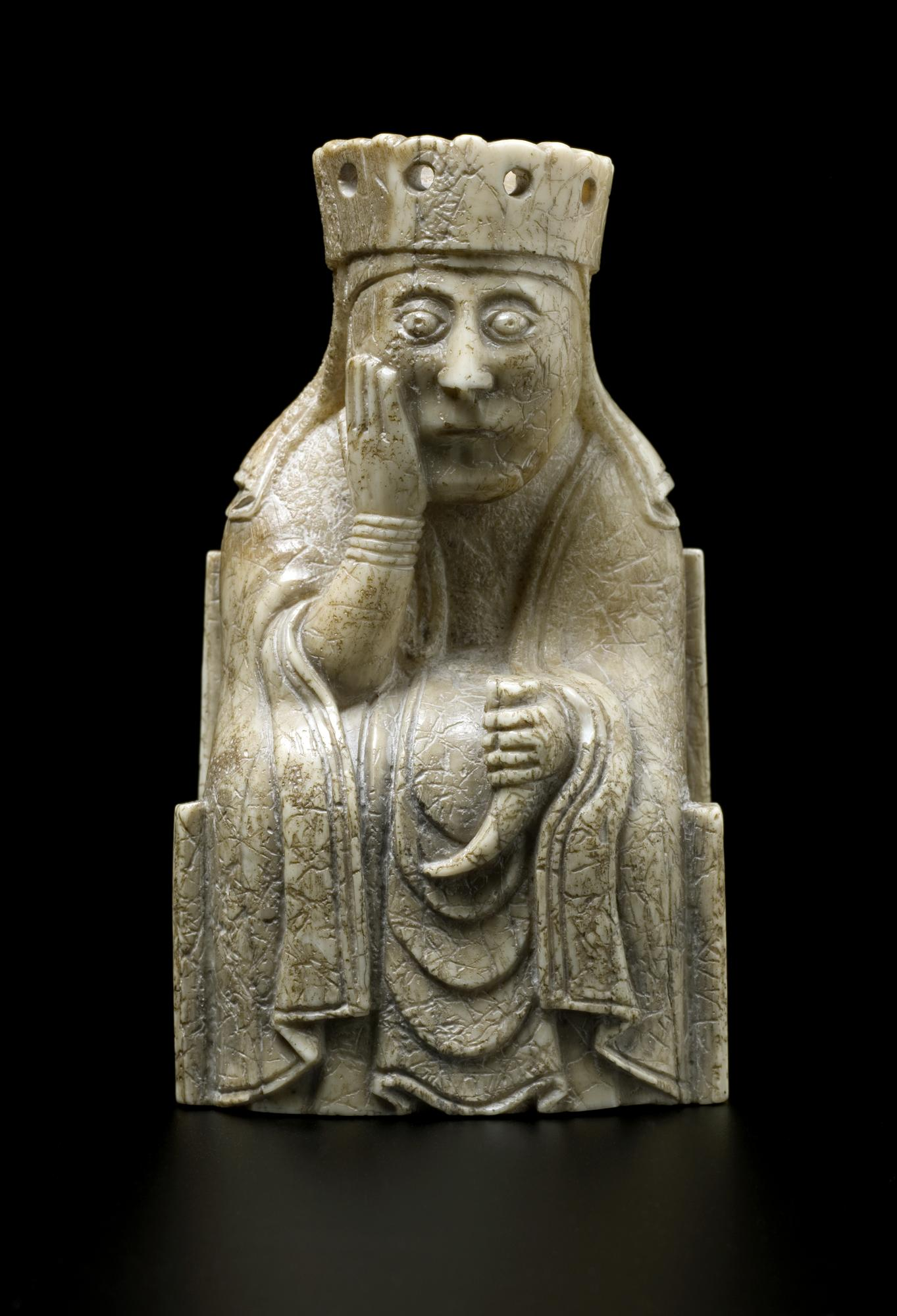 This file was uploaded as part of a partnership between Wikimedia UK and the National Museum of Scotland. This tag does not indicate the copyright status of the attached work. A normal copyright tag is still required. See Commons:Licensing. This work is free and may be used by anyone for any purpose. If you wish to use this content, you do not need to request permission as long as you follow any licensing requirements mentioned on this page.